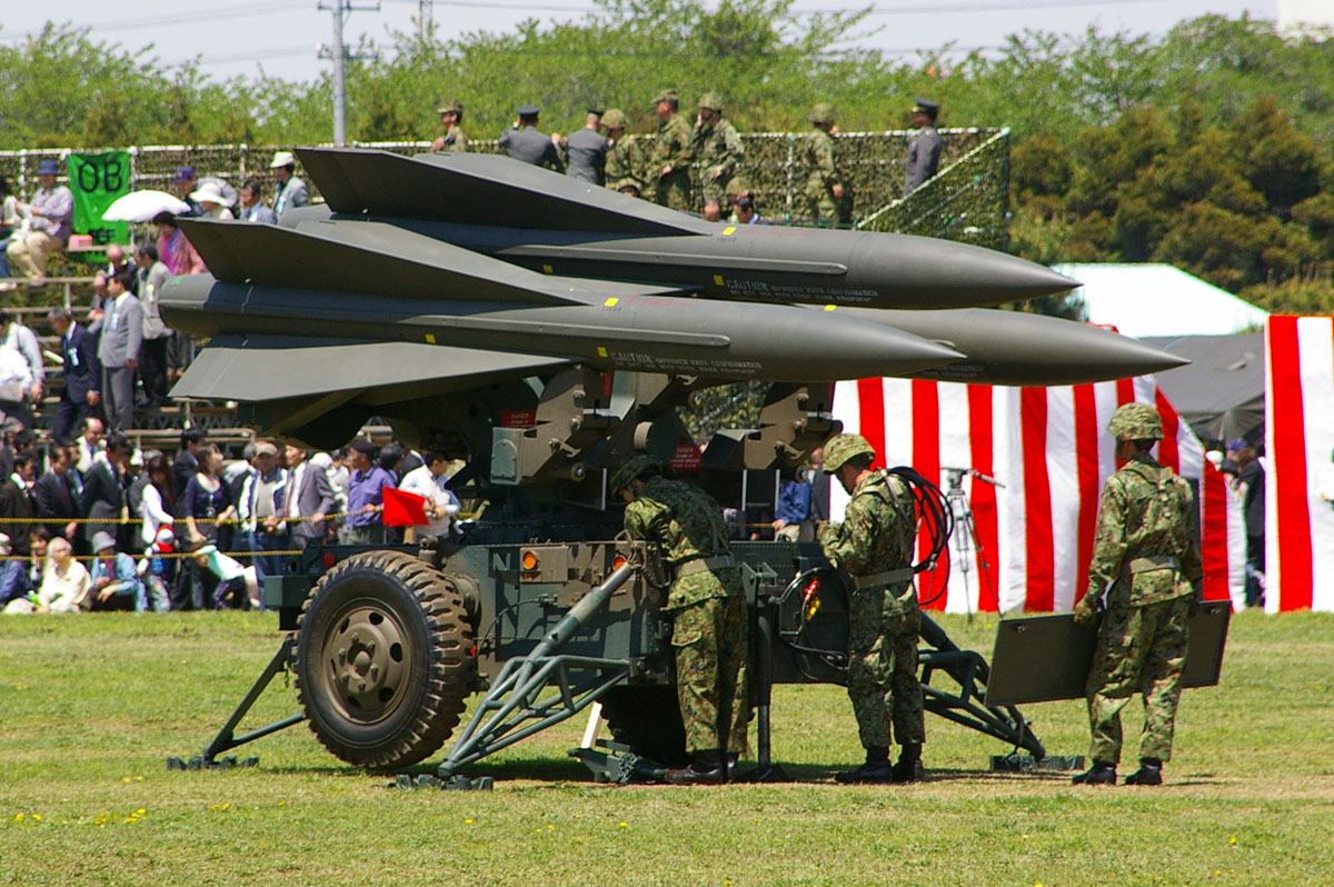 Taken by Los688,29-Apr-2007,JGSDF Camp-Shimoshizu.JGSDF HAWK SAM launcher,Air Defence Artillery School unit.PD-self. ja:2007年4月29日、投稿者撮影。陸上自衛隊下志津駐屯地記念行事。改良ホーク ミサイル発射機、高射教導隊。